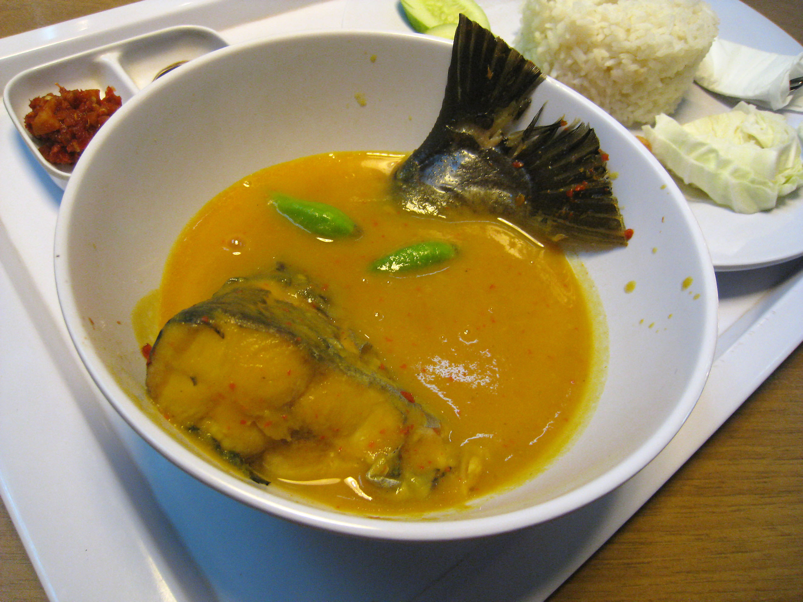 Tempoyak Ikan Patin, pangasius catfish served in sweet and spicy tempoyak sauce, a fermented durian-based sauce. Specialty of Palembang city, South Sumatra. Served at a Palembang food stall at Food Colony Foodcourt, Atrium Senen Plaza, Central Jakarta, Indonesia.